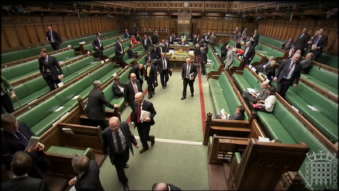 The Chamber of the House of Commons, with members walking out for a division.